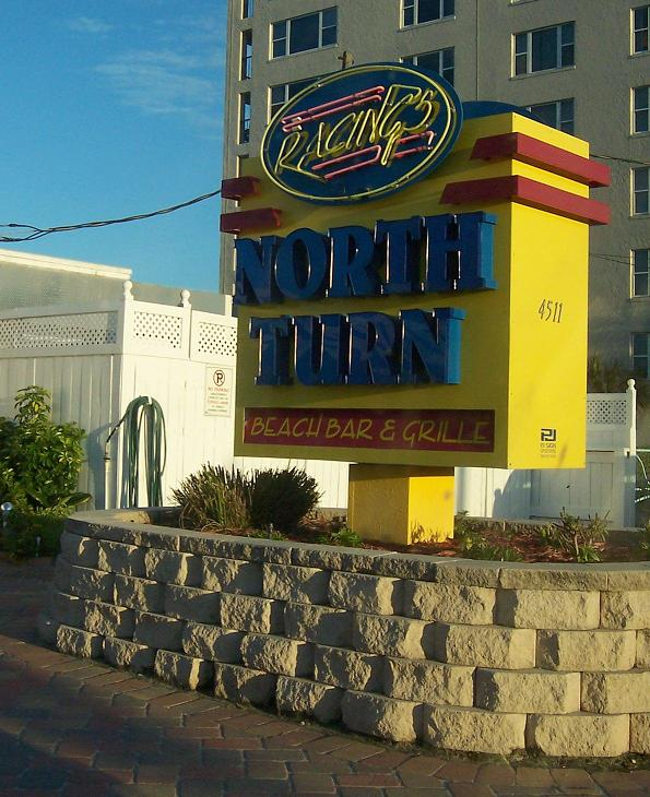 A photograph of the restaurant "Racing's North Turn," located on A1A in Ponce Inlet, Florida.